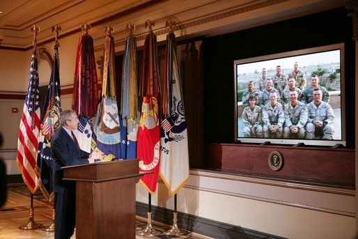 George W. Bush gestures as he speaks with troops, from the U.S. Army's 42nd Infantry Division serving in Iraq, via video teleconference from the Eisenhower Executive Office Building in Washington, Thursday, Oct. 13, 2005.